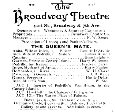 Advertisement for "The Queen's Mate" at The Broadway Theatre, in the April 30, 1888 issue of "The Theatre." The play debuted on May 2, 1888.